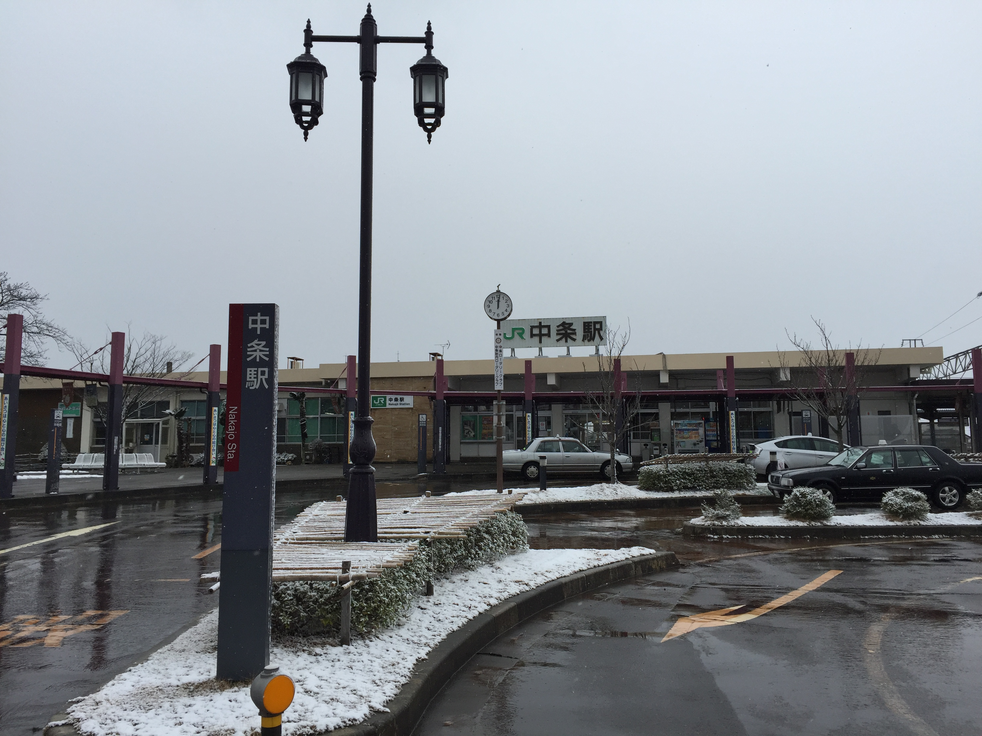 Nakajo Station in Niigata Prefecture, Japan